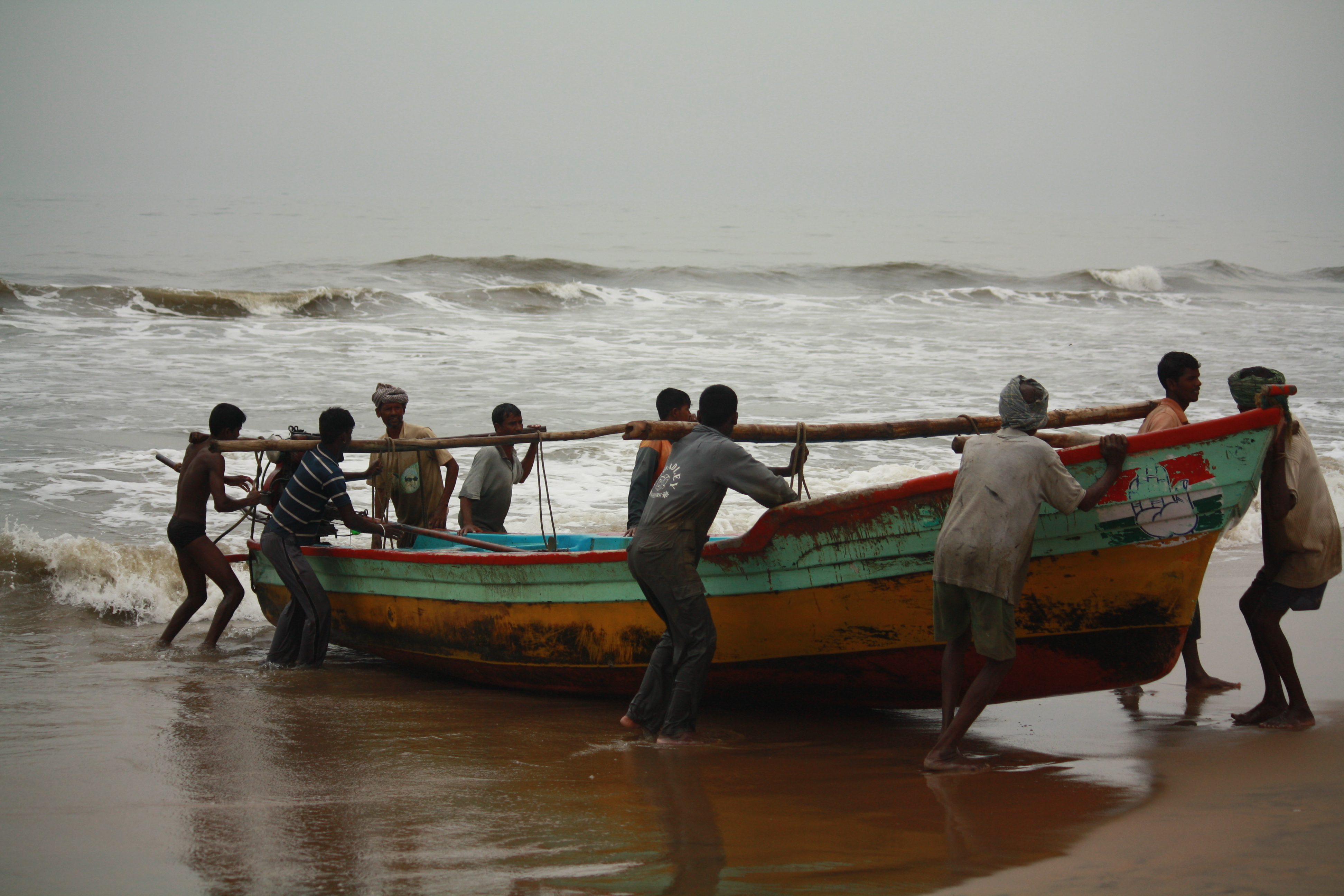 Tamil fishermen dragging boat